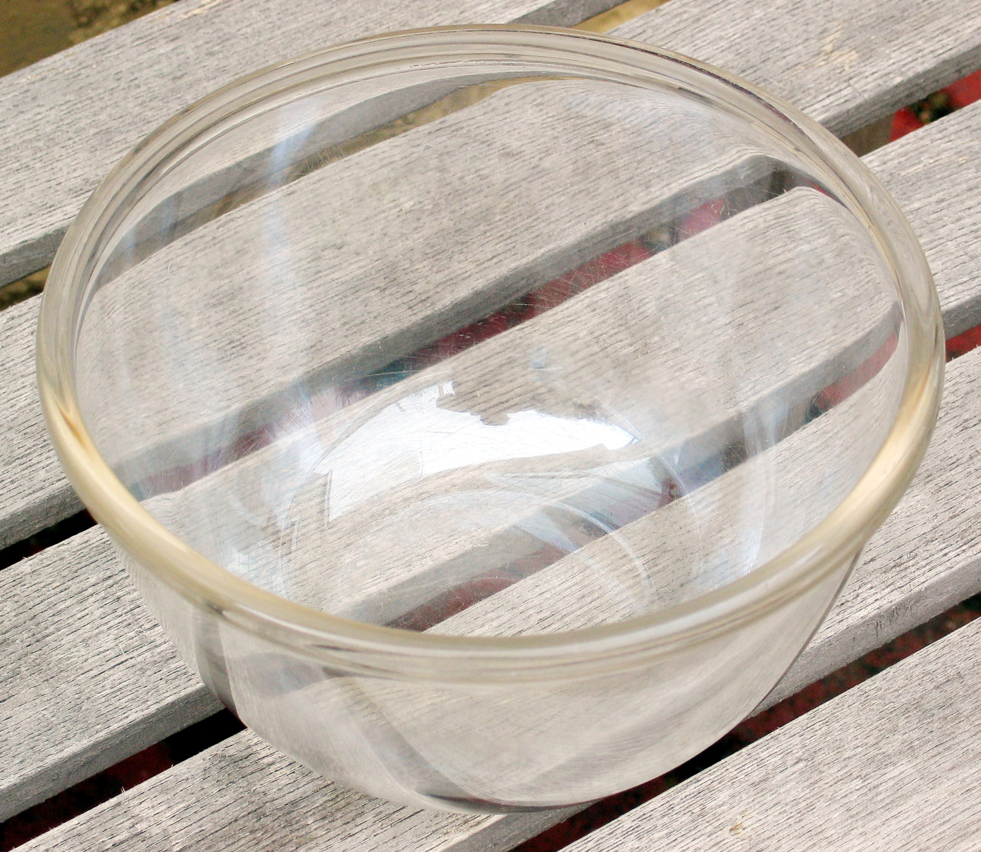 Pyrex mixing bowl